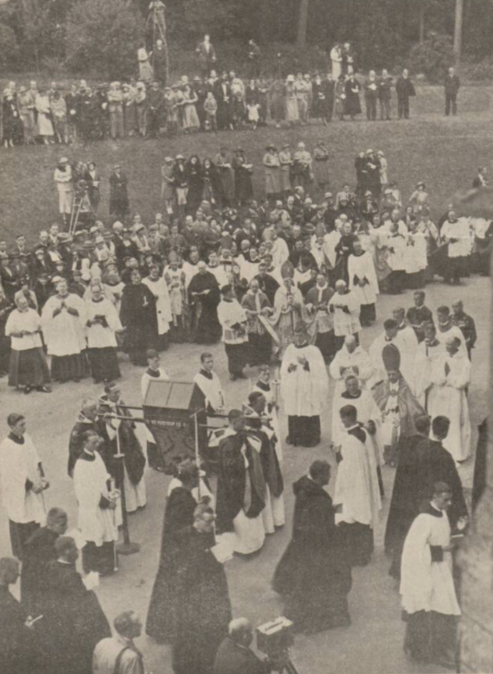 From Bath Chronicle and Weekly Gazette. Saturday 14 September 1935 At the west door of the Abbey. The procession of relics entering the sacred edifice.